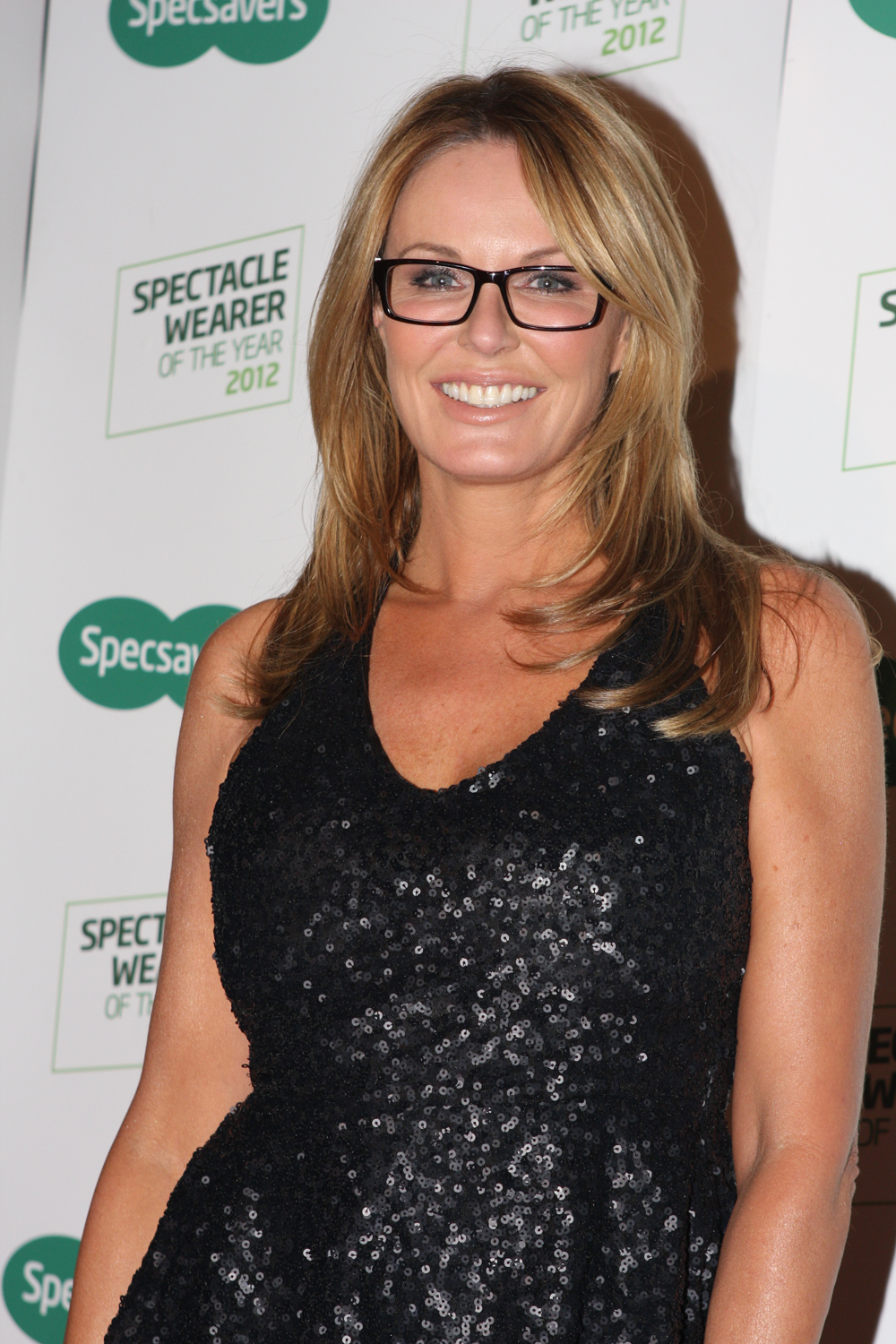 Christina Hendricks launches Specsavers Spectacle Wearer of the Year competition at The Star